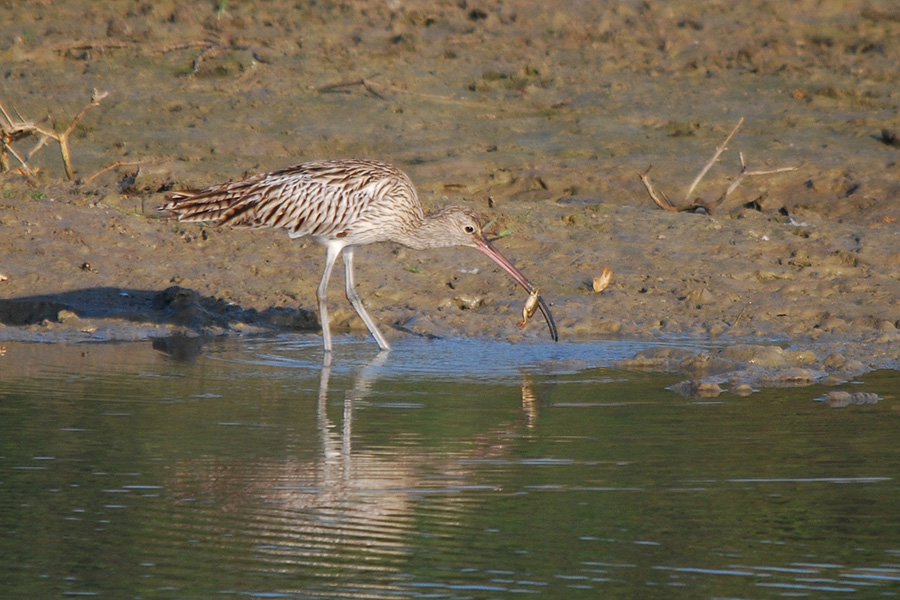 EurasianCurlew-Kelambakkam